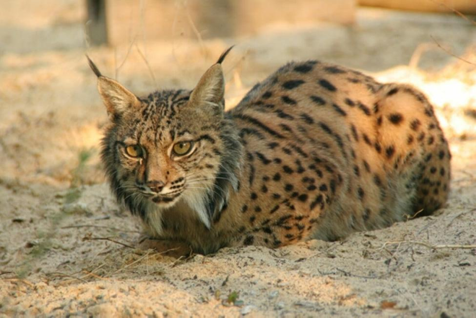 Iberian Lynx adult from the Program Ex-situ Conservation